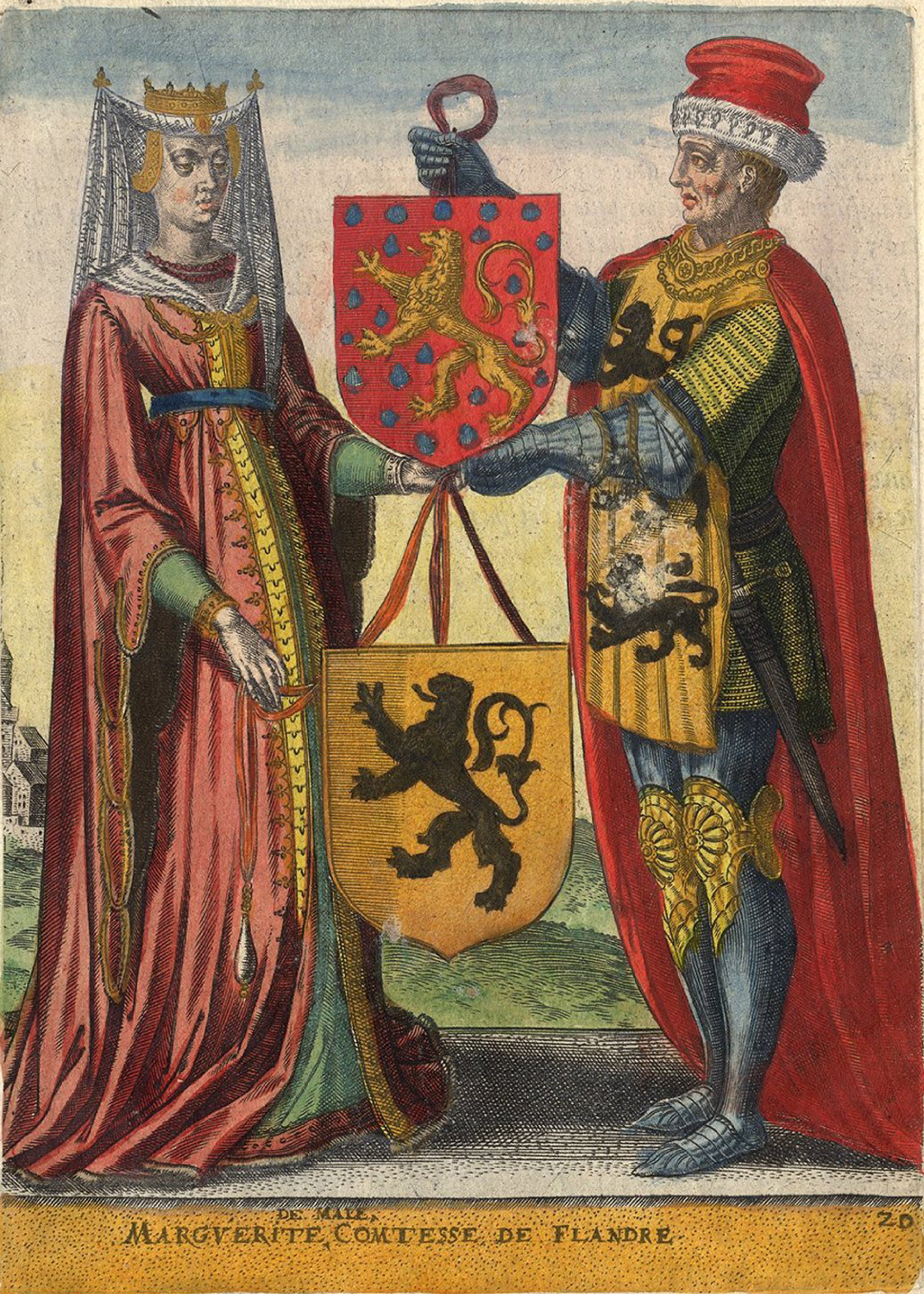 Margaret of Flanders and William of Dampierre